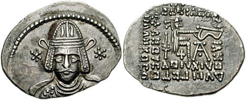 Coin of the Parthian king Vonones II